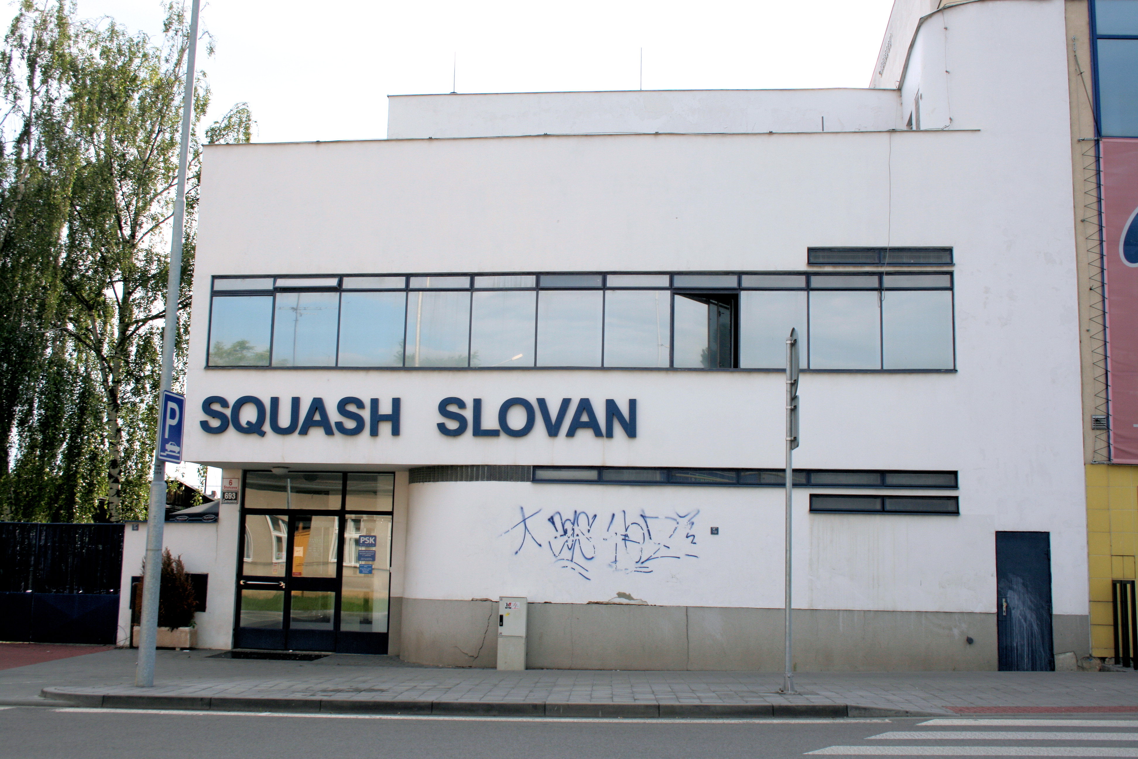 Squash Slovan, Brno, Czech Republic. Česky: Squash Slovan, Štolcova 6, Brno-Černovice. Původní budova kina Avia od Josefa Kranze z let 1928-1929. Čelní pohled na průčelí budovy z ulice.